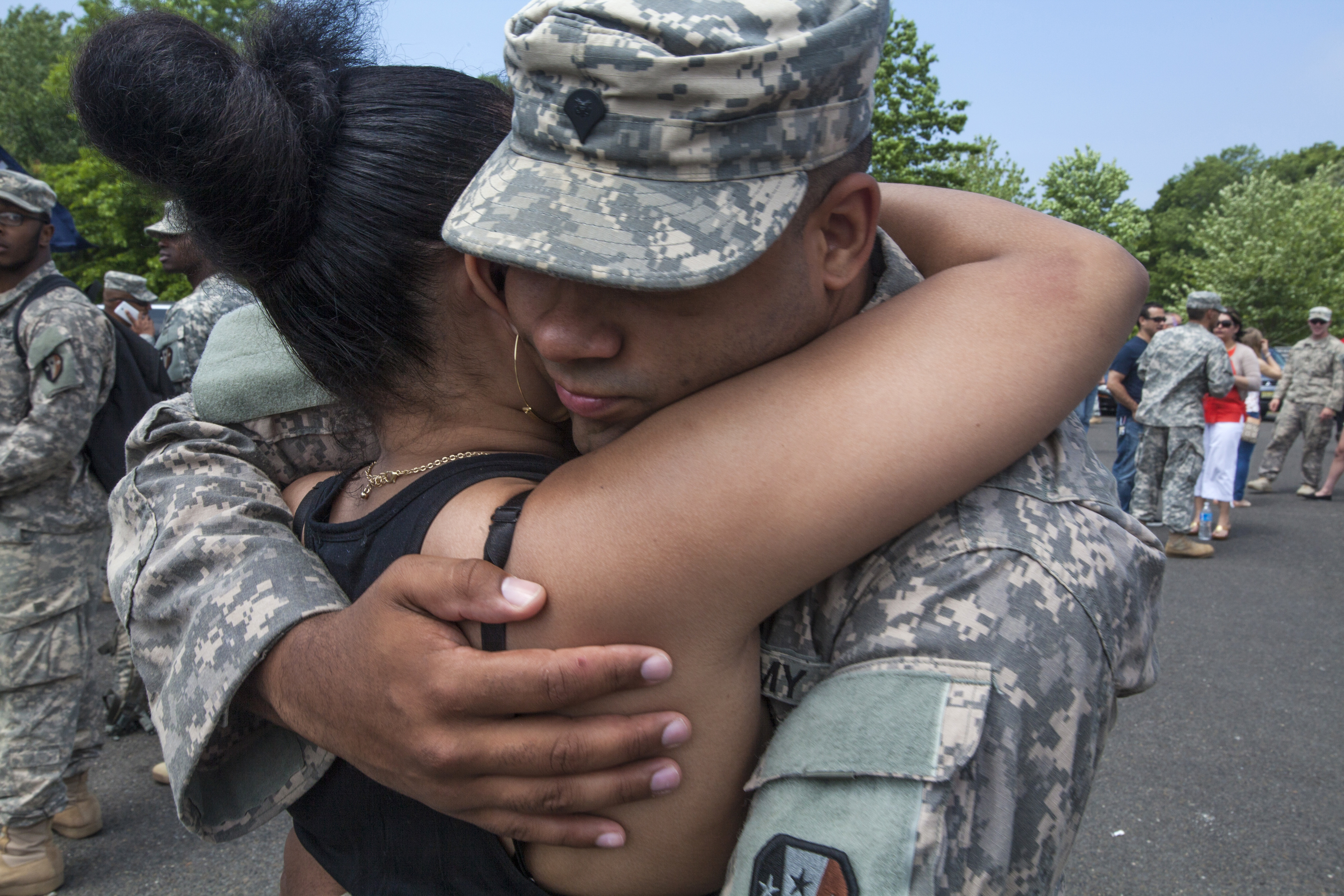 A Soldier with the 1-114th Infantry, New Jersey Army National Guard, is hugged at the Joint Training and Training Development Center, Joint Base McGuire-Dix-Lakehurst, N.J., May 18, 2015. The nearly 450 Citizen-Soldiers returned home from a nearly yearlong deployment where they served in command and control, conducted oversight for mission planning and administrative support, provided security at facilities, control points, perimeter towers and radar sites in support of Operation Enduring Freedom. (U.S. Air National Guard photo by Master Sgt. Mark C. Olsen/Released) Unit: New Jersey National Guard